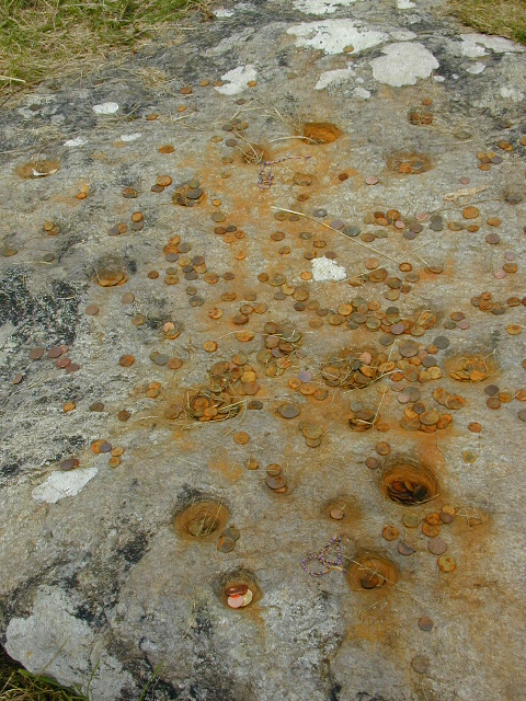 St Columbkille's stone, offerings left by pilgrims